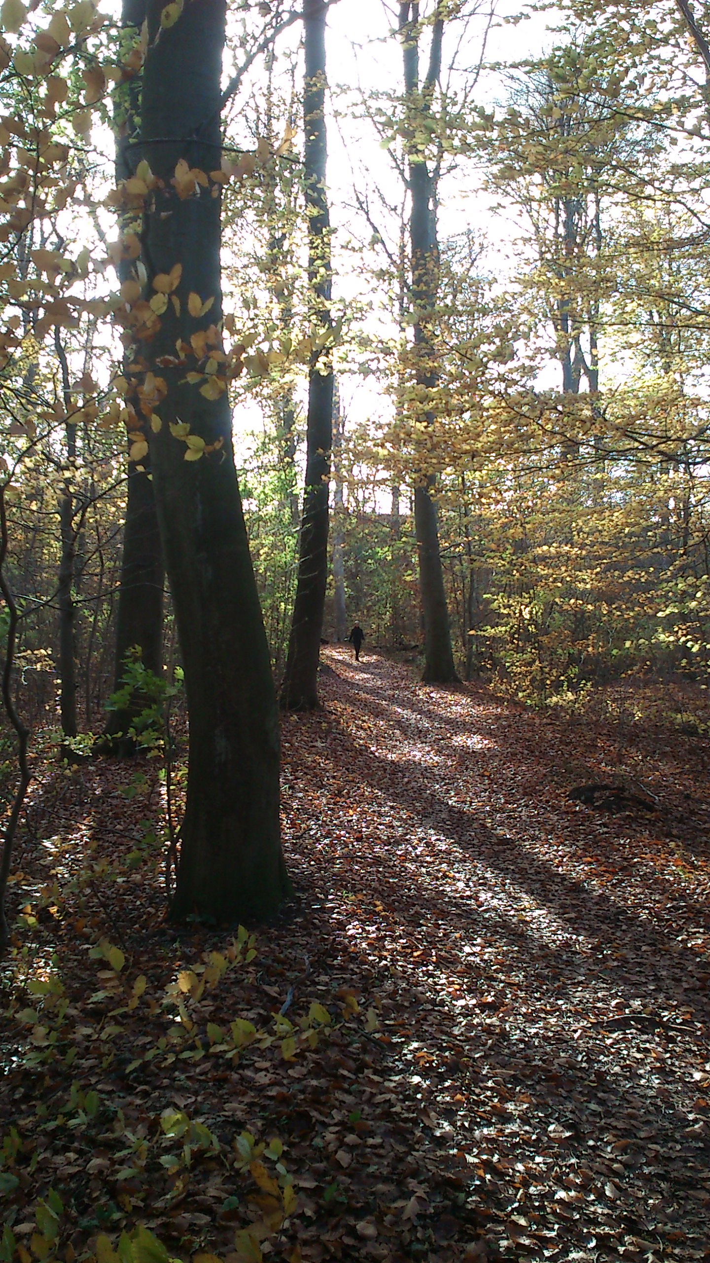 Marslisborg Forests in autumn.